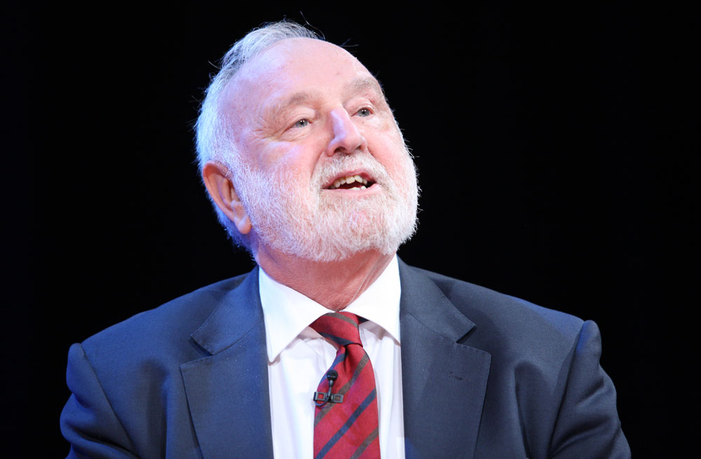 Frank Dobson, Labour MP for Holborn and St. Pancras